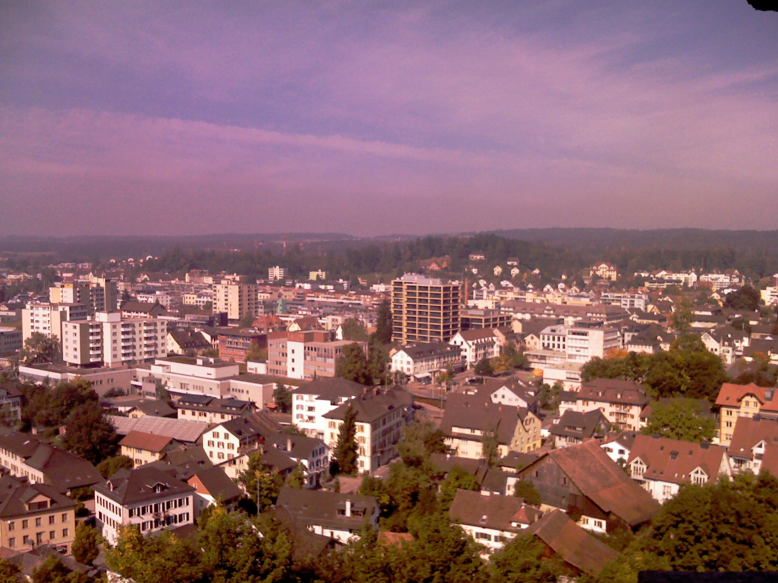 Uster - View of city center from the tower of Castel Uster